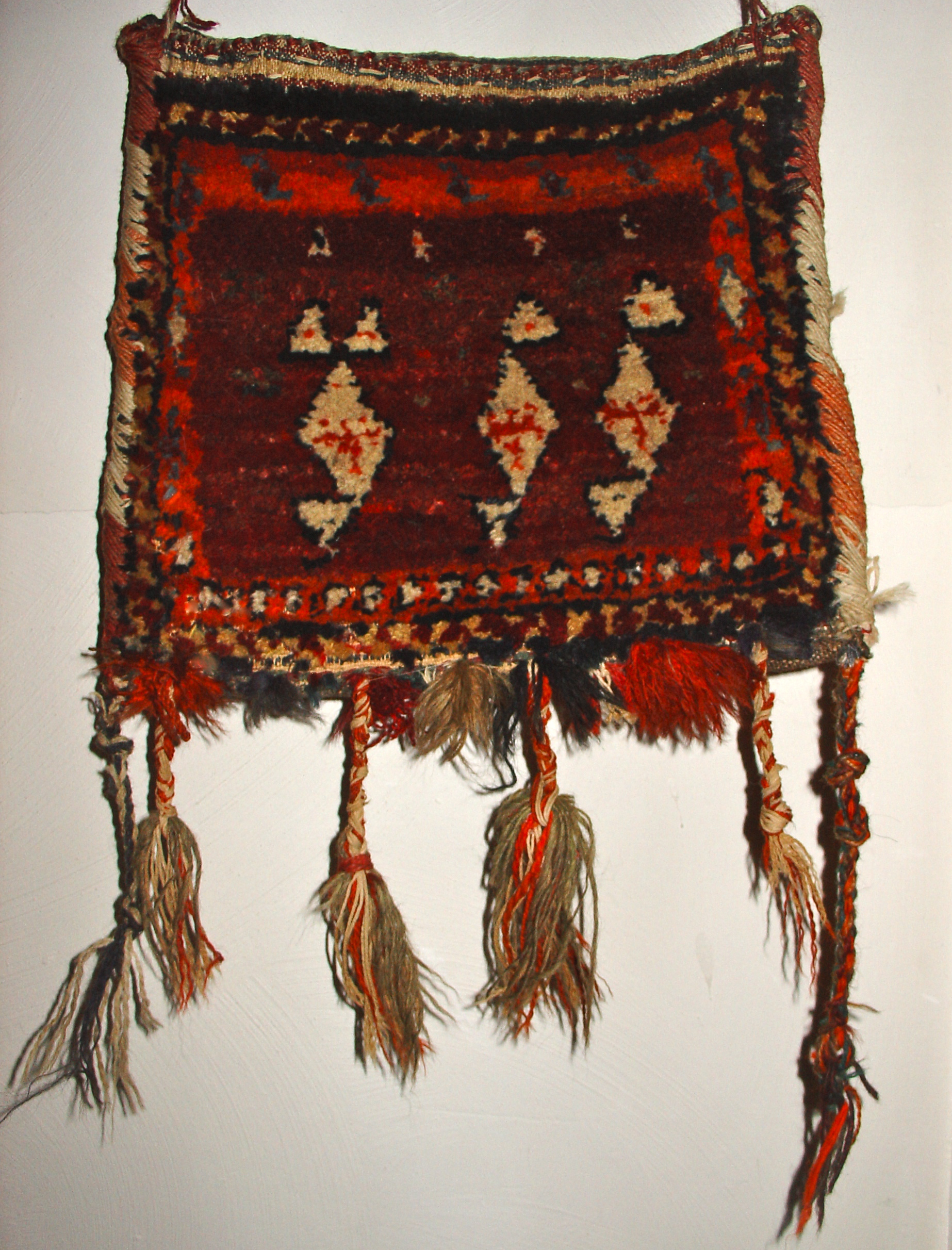 Qashqai bag front